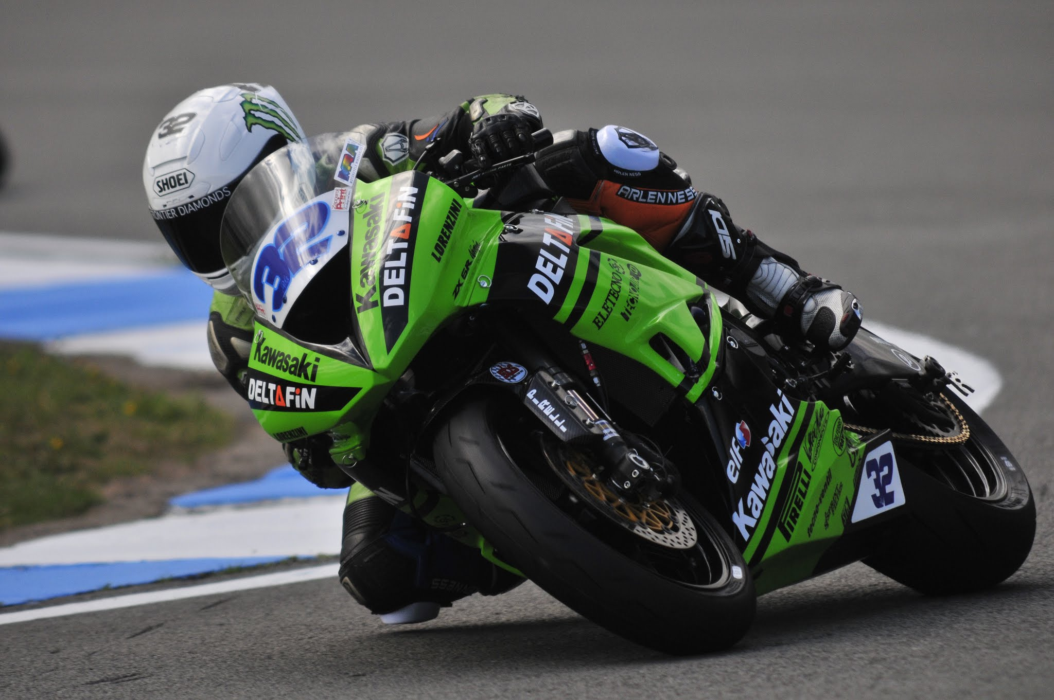 Sheridan Morais - 2012 Supersport Donington Park